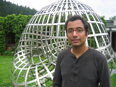 Ravi Vakil, Canadian-American mathematician, at Oberwolfach.